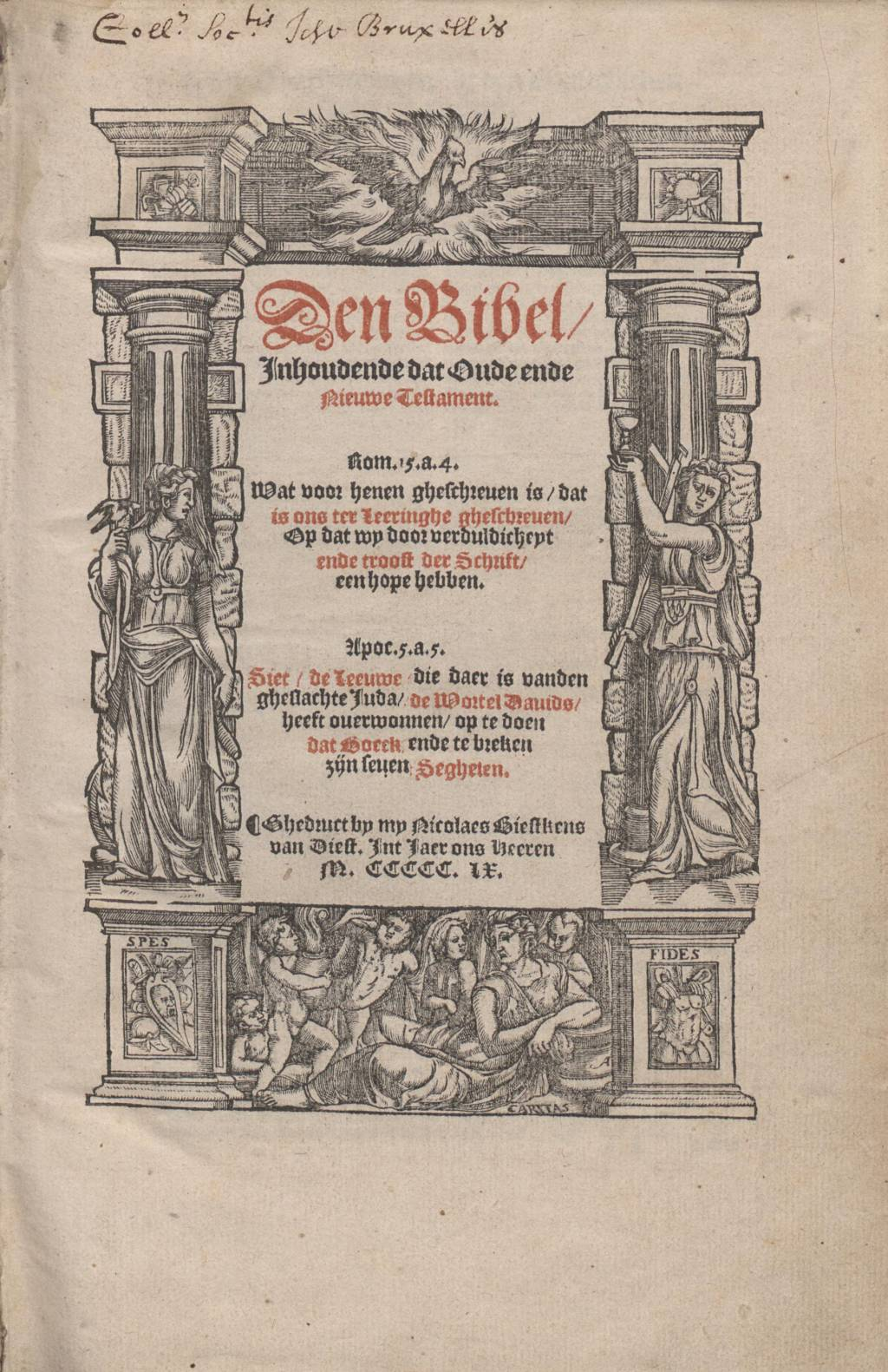 Frontpage Biestkensbijbel 1560